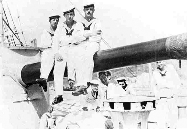 Crew members of the Danish cruiser Valkyrien pose with the Krupp ship gun in front of St. Thomas, Danish West Indies (Danish Virgin Islands). 1916 or 1917